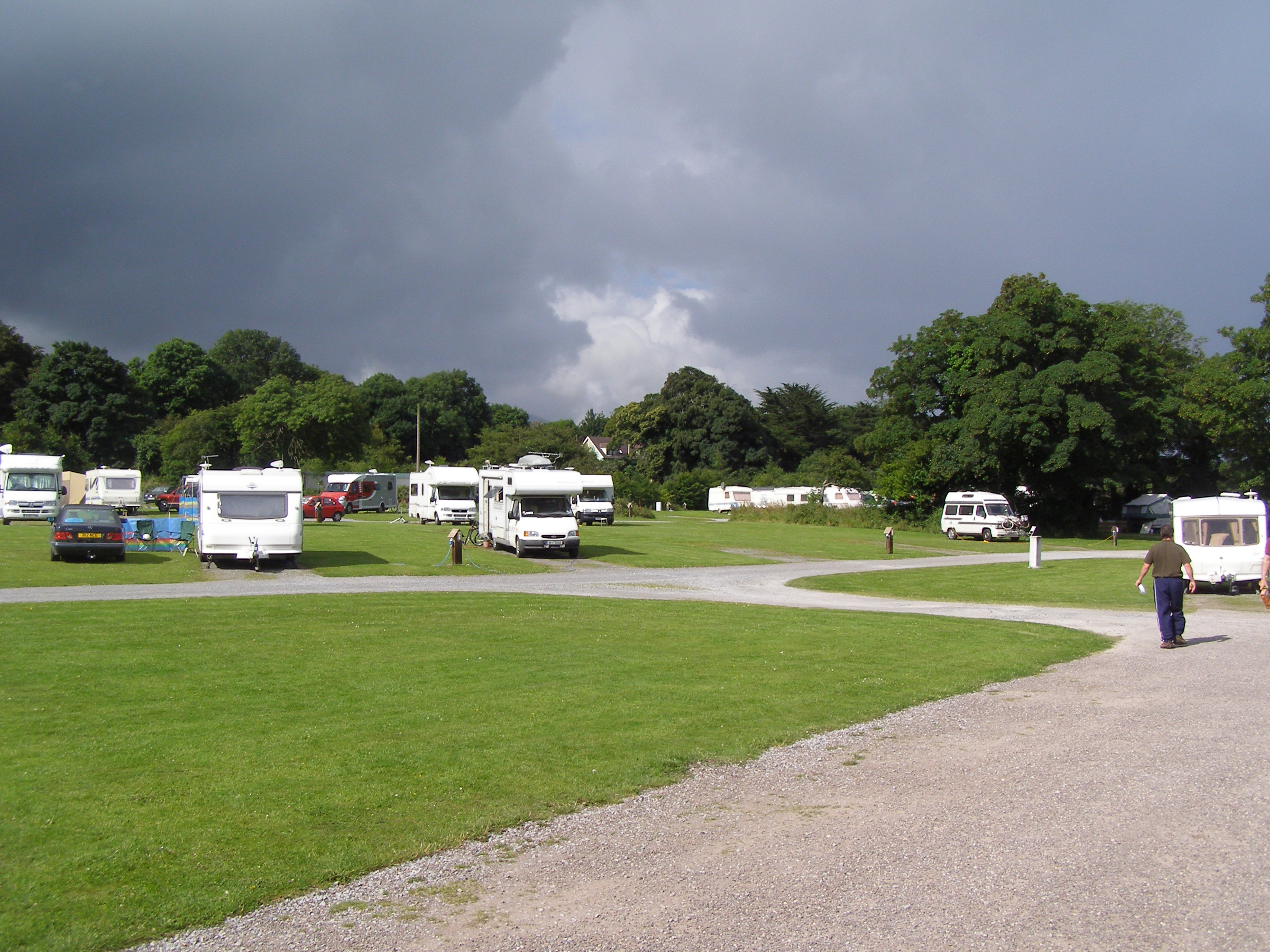 A campsite in Tralee, Ireland, with Campers and Caravans